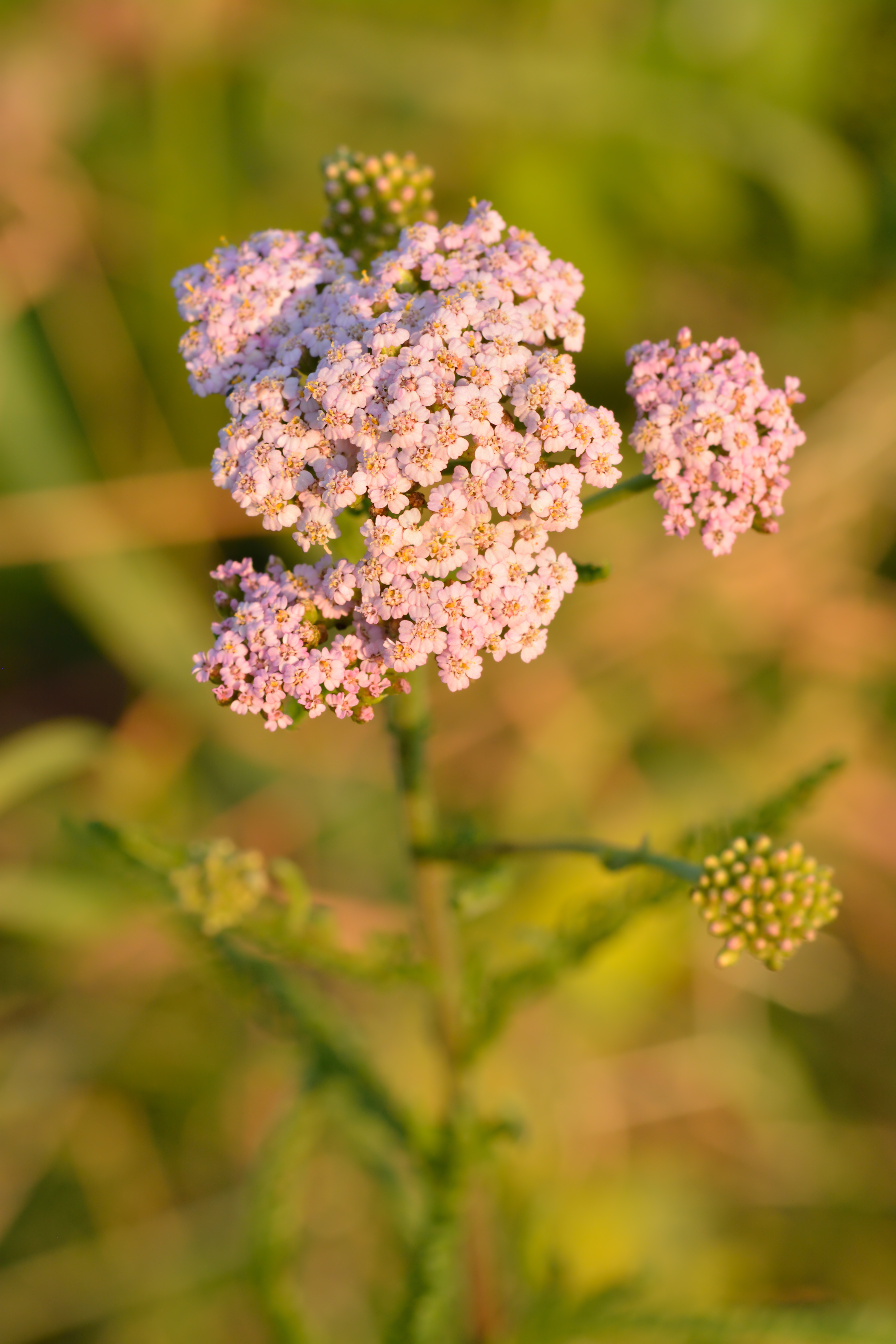 Achillea millefolium - yarrow with pink flowers in Valingu village, Northwestern Estonia